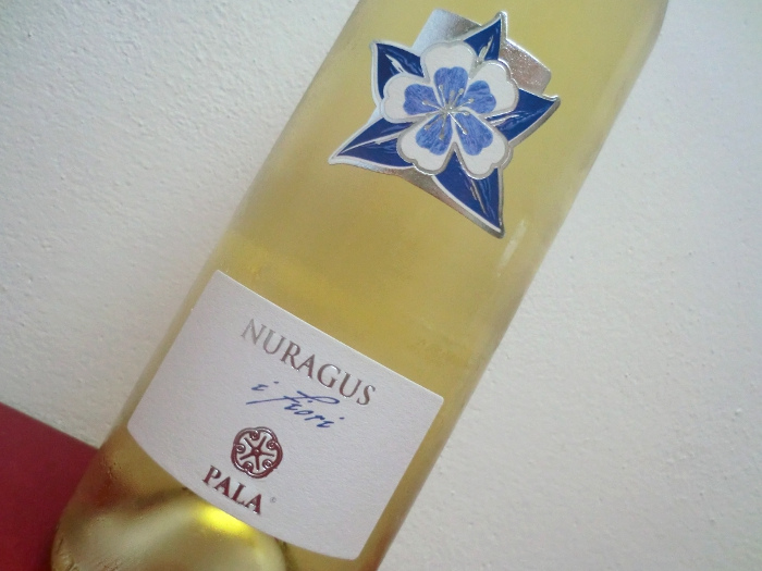 White Italian wine from Sardinia made from the Nuragus grape.